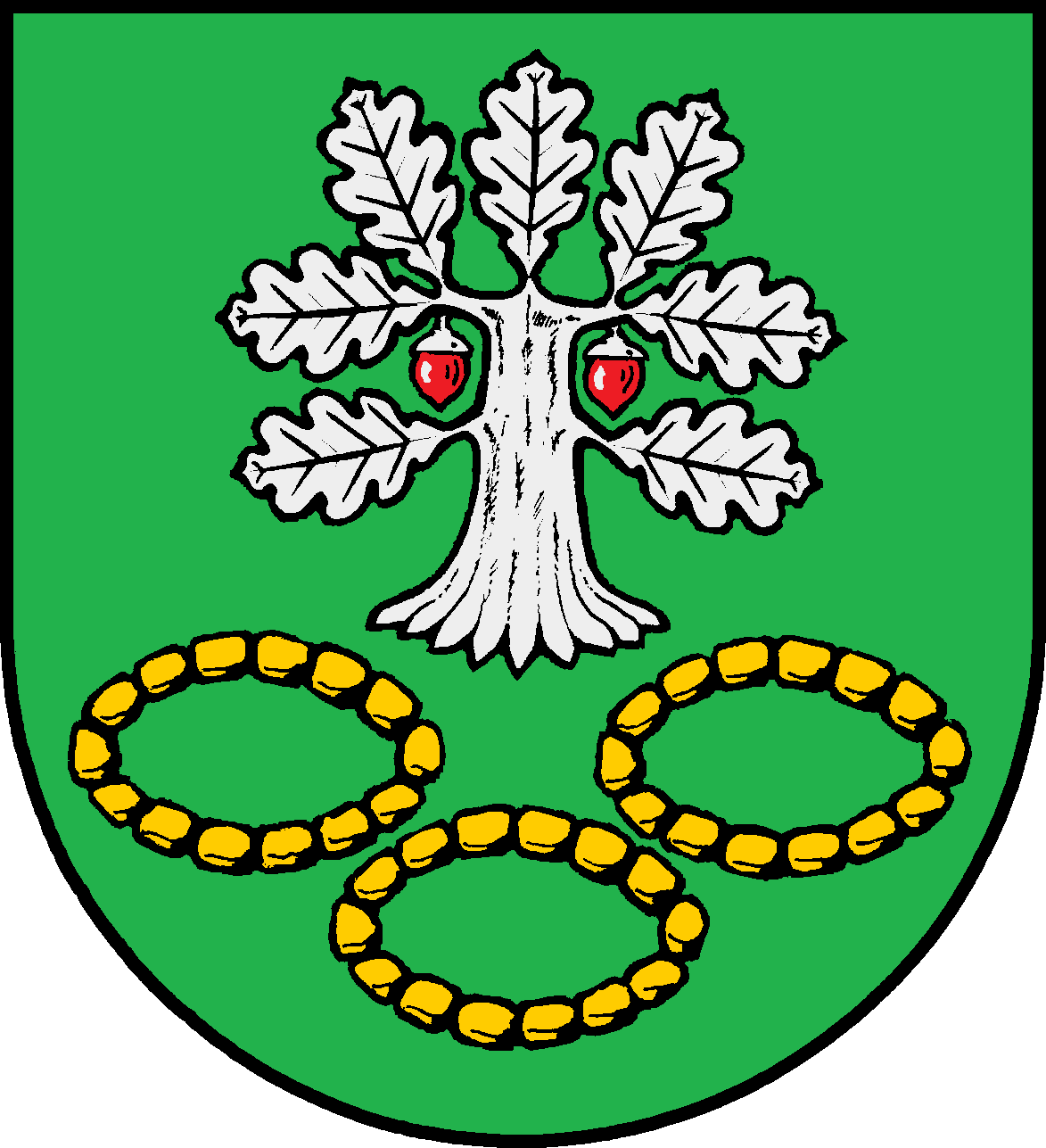 Coat of arms of the municipality Högsdorf in Schleswig-Holstein, Germany.